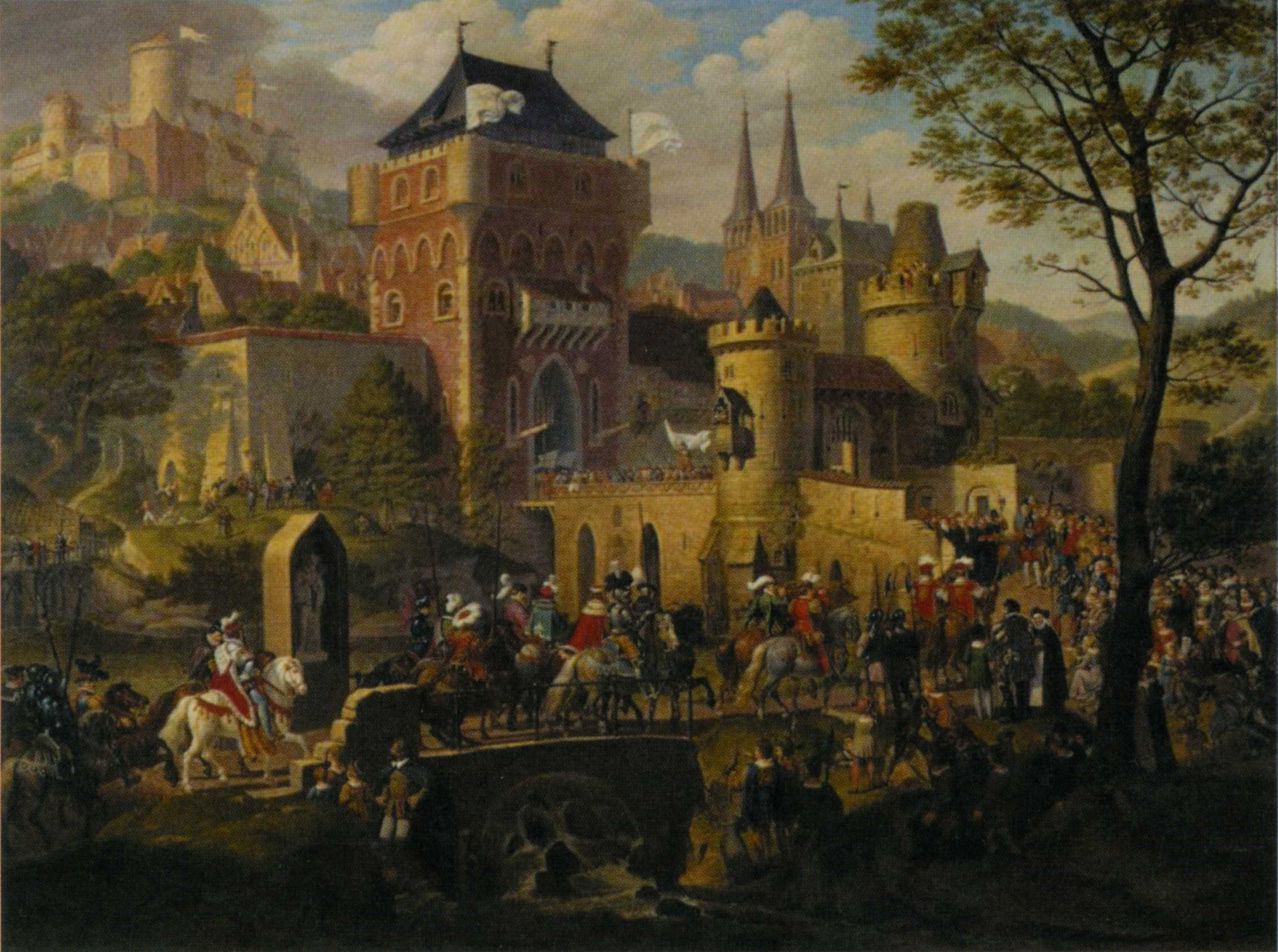 Entry of a Prince in an Old City, by Heinrich Anton Dähling (1822). Berlin, Nationalgalerie.